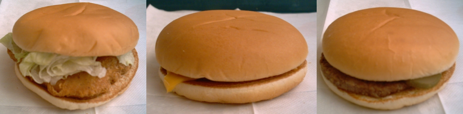 McDonald's McChicken, cheeseburger and hamburger sandwiches (from left to right) photography day, 2006/10/16 photography person kici